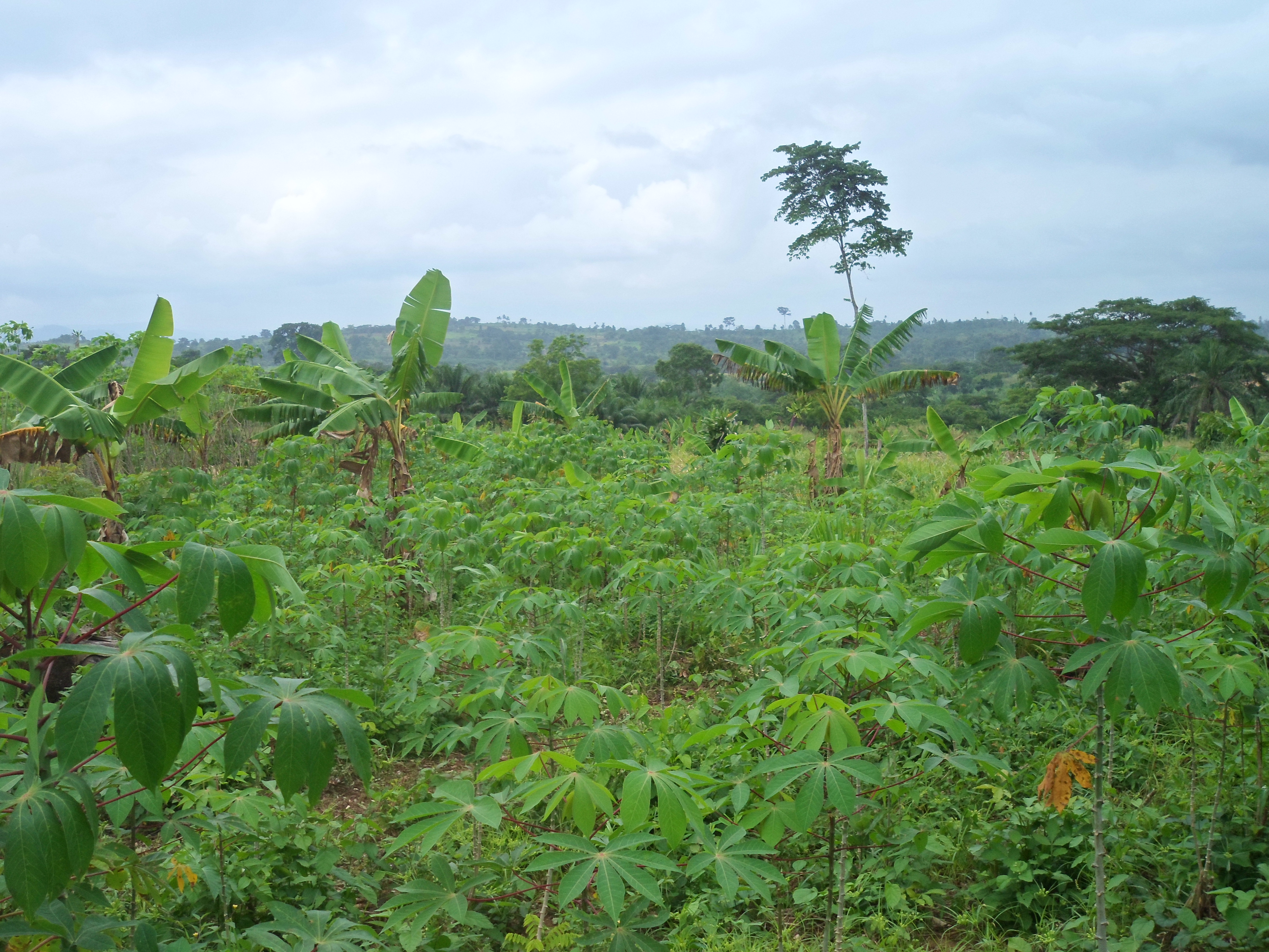 Asuboi Coco-yam Farm at Asuboi